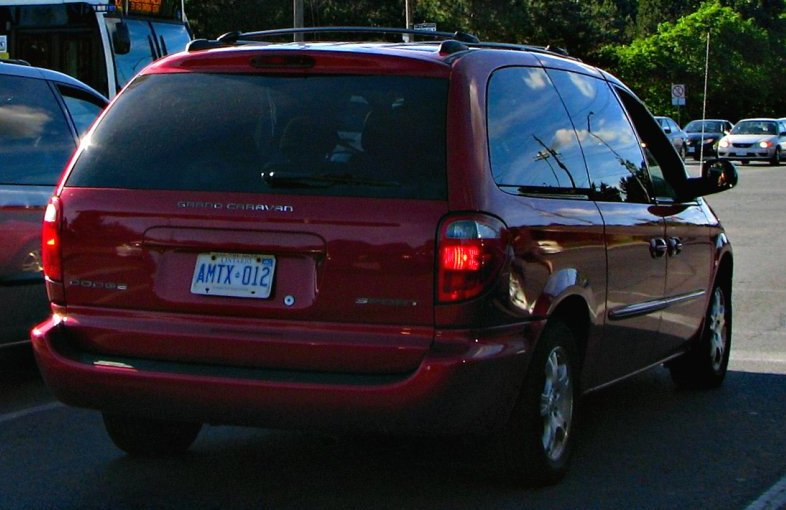 4 Dodge Caravans! There was one more behind me. Very common nowadays!